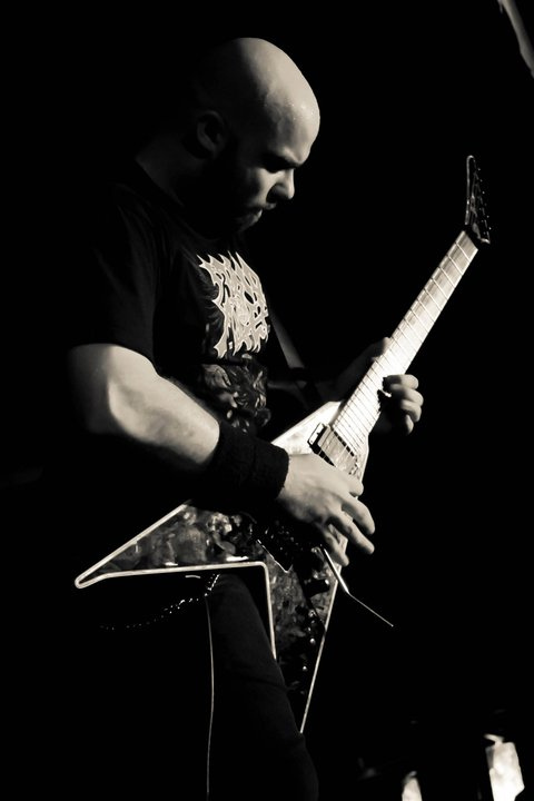 Rami H. Mustafa - Guitarist of Nervecell, live at a concert in Cebu City on May 1,2011